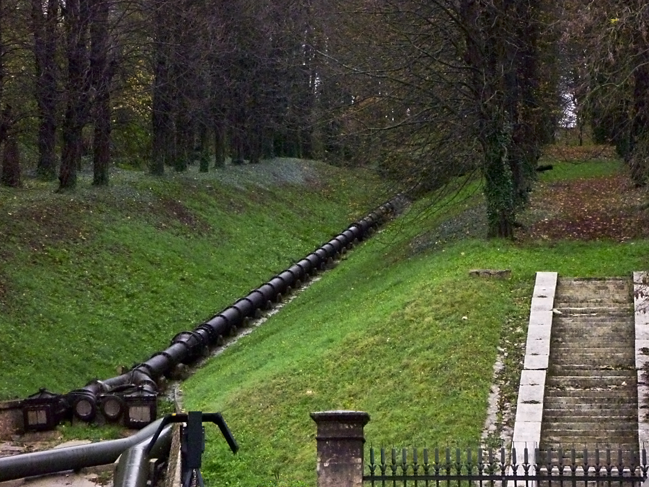 Old water pipe, remnant of the Machine de Marly, on the hillside of Bougival towards Louveciennes (Yvelines, France).